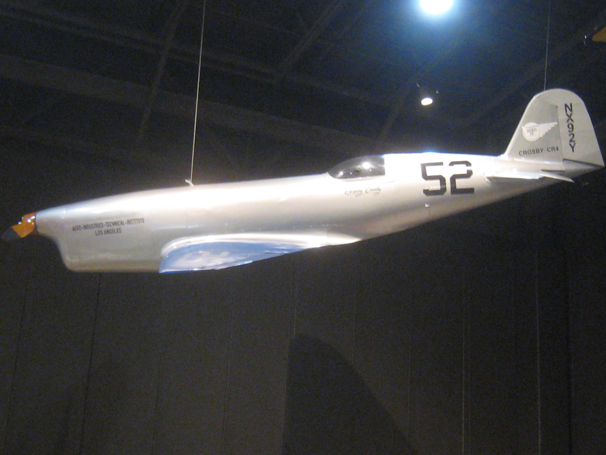 Crosby CR-4 (NX92Y), EAA Museum, Oshkosh WI